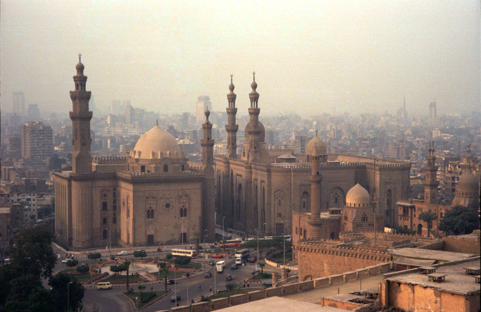 View of the Sultan Hassan Mosque (left) and the Rifa'i Mosque (right) from the Cairo Citadel.